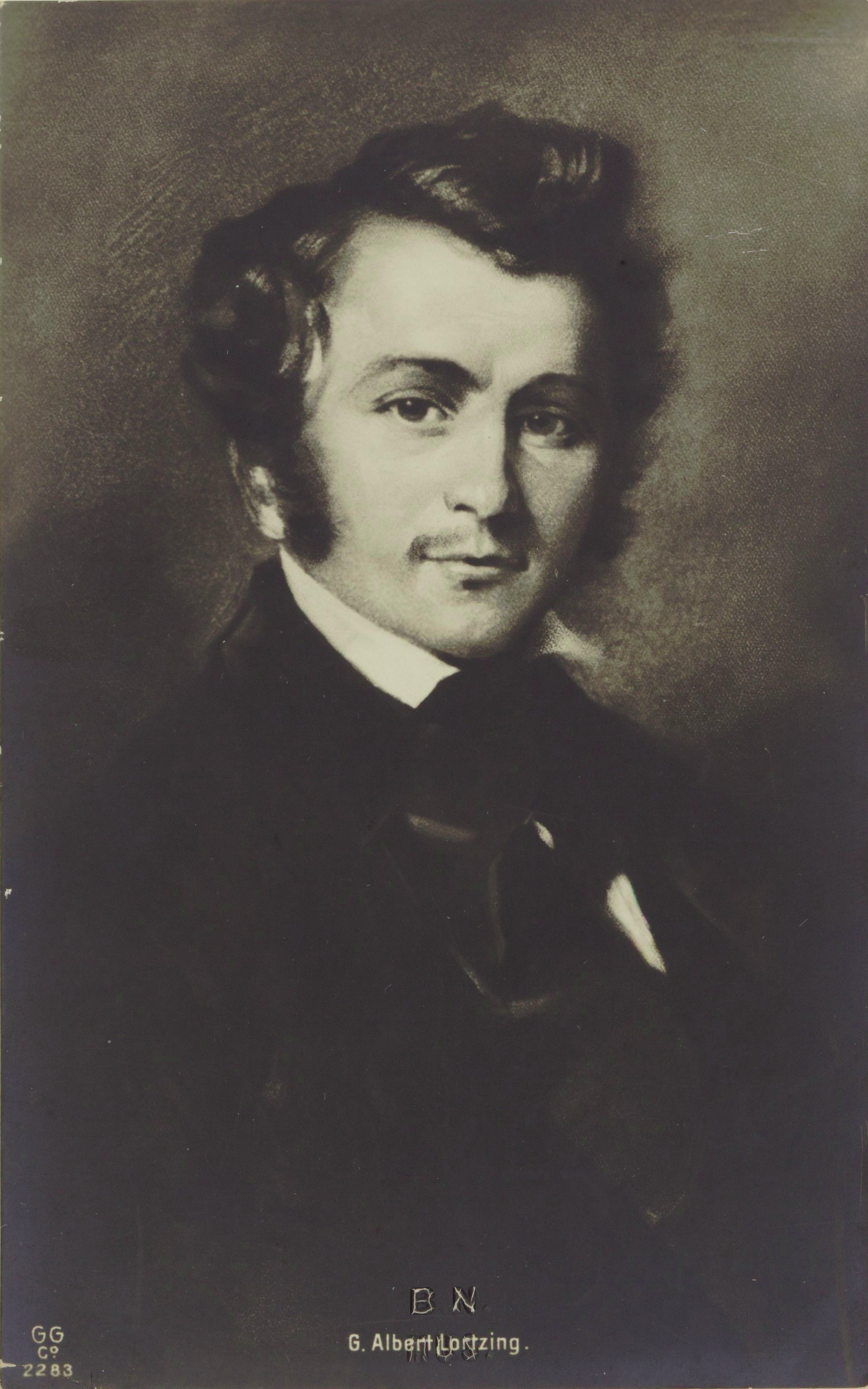 Depicted person: Albert Lortzing